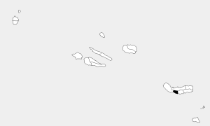 Map of the Azores showing Lagoa